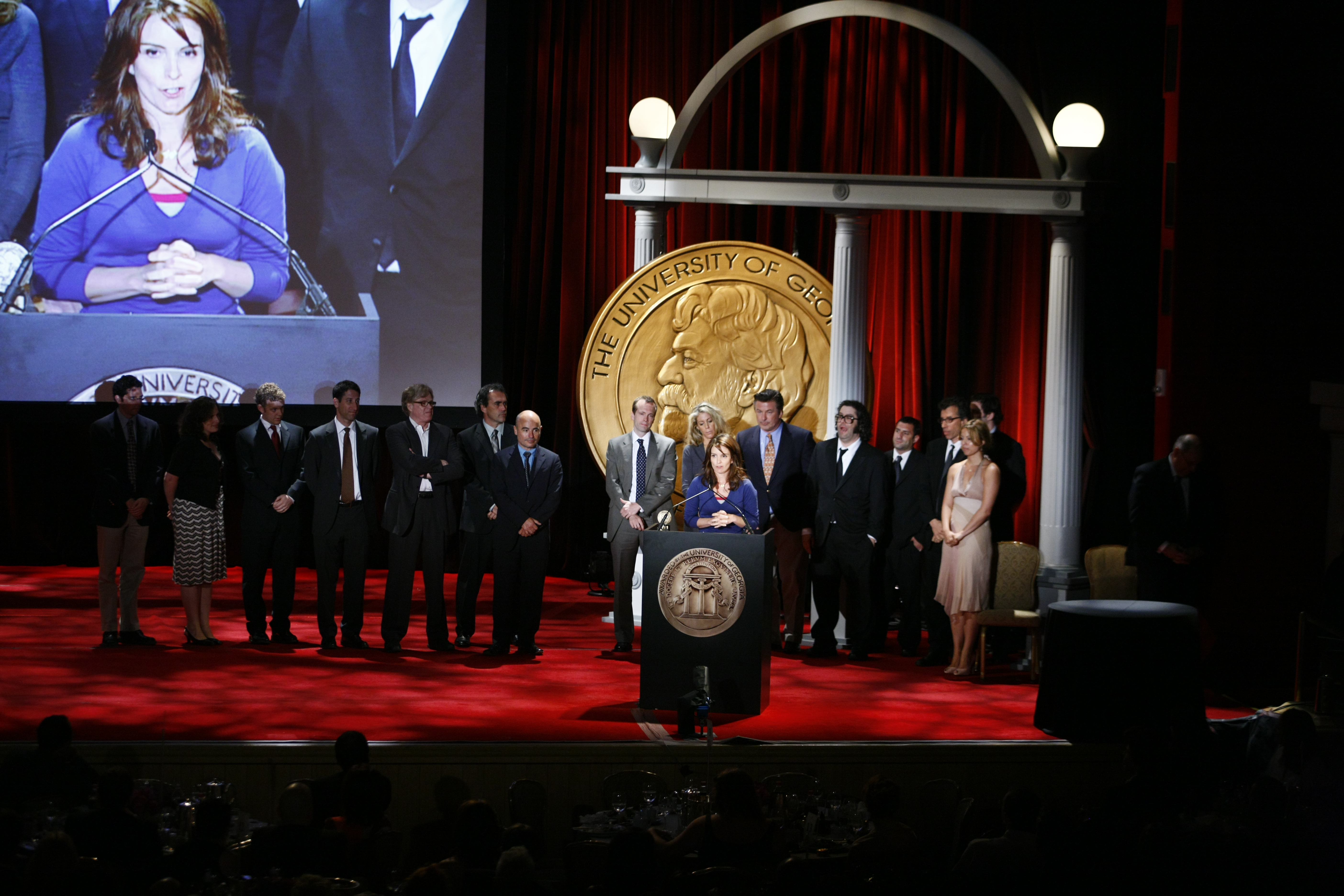 PHOTO CREDIT: ANDERS KRUSBERG / PEABODY AWARDS Tina Fey with the cast and crew of 30 Rock including Alec Baldwin, Judah Friedlander and Jane Krakowski 67th Annual Peabody Awards Luncheon Waldorf=Astoria Hotel New York, NY USA June 16, 2008